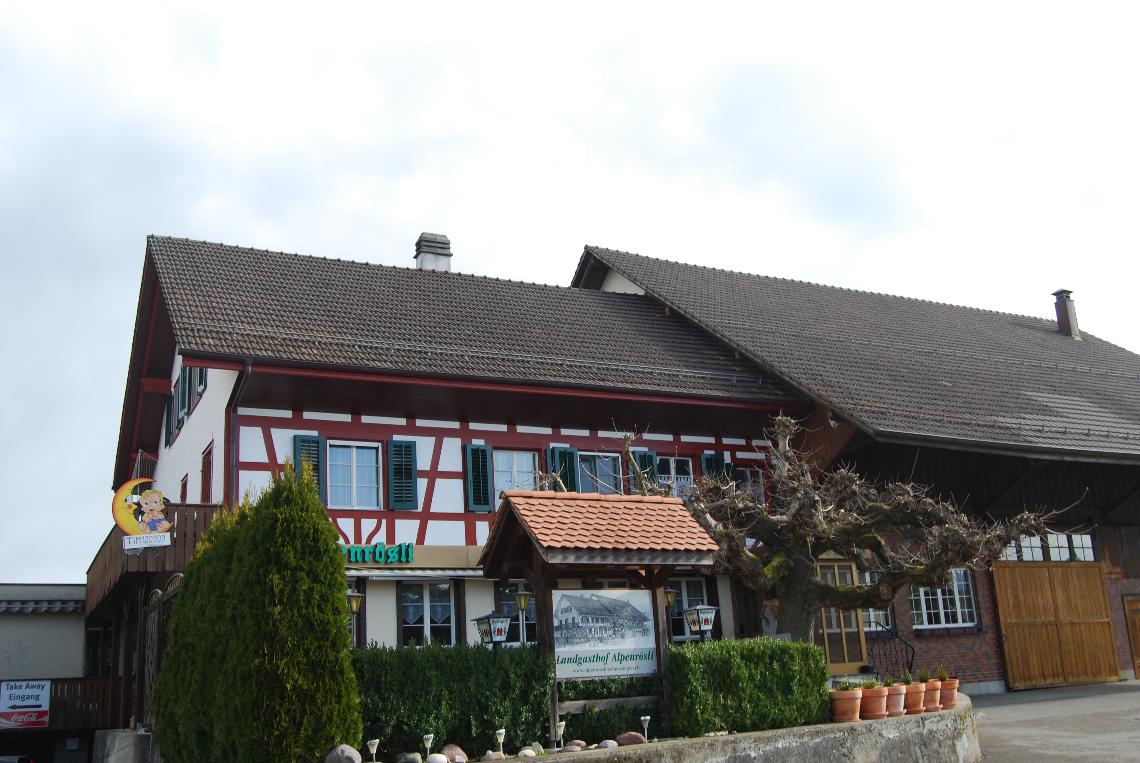 Schneisingen, canton of Aargau, SwitzerlandEsperanto: Schneisingen, Kantono Argovio, Svislando